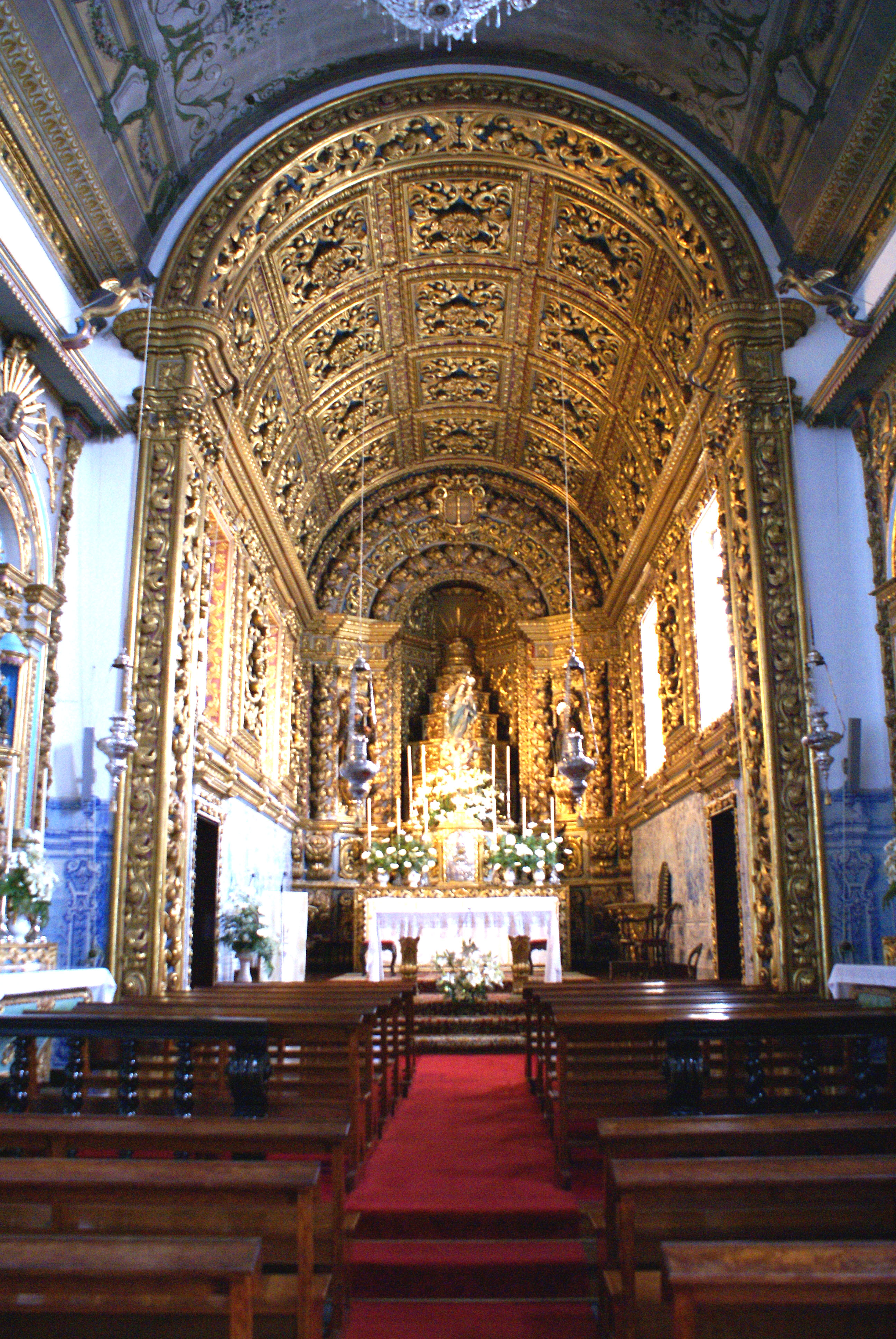 The interior nave of the Church of Santo Cristo dos Milagres, São José, São Miguel (Azores), Portugal